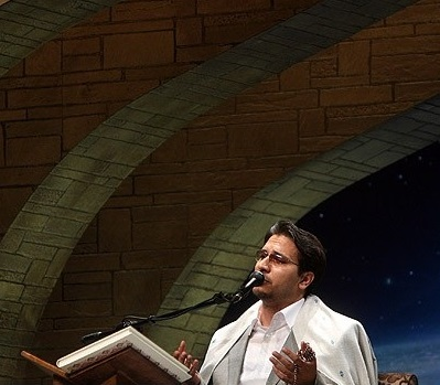 تلاوت حامد شاکرنژاد در بیست و نهمین دوره مسابقات بین المللی قرآن کریم